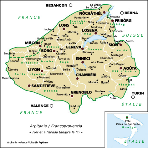 Franco-Provençal language map with placenames in Franco-Provençal (Arpitan) language